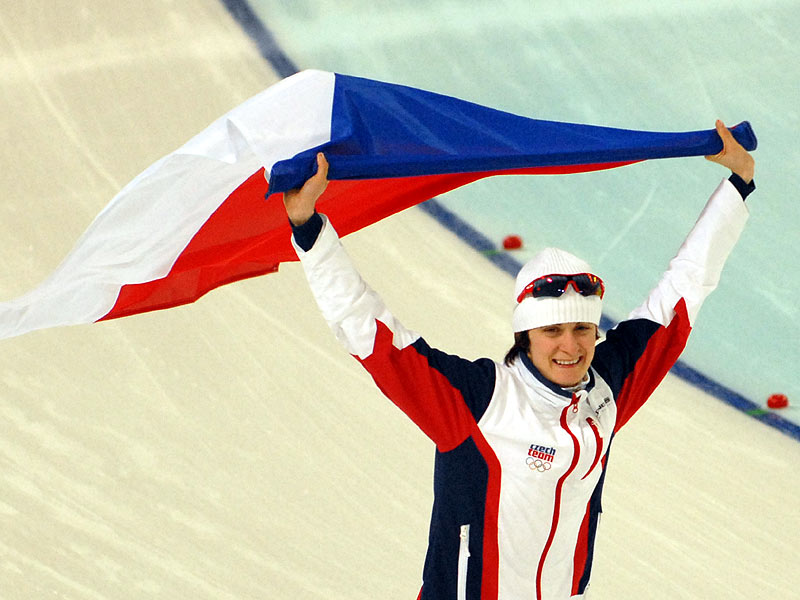 Czech speed skater Martina Sáblíková celebrating her Olympic 3000 m title in Vancouver 2010.